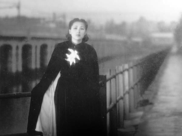 Yumeko Aizome in the 1940 film Aijin no chikai hi (愛人の誓ひ)